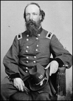 photo of John Wallace Fuller (1827-1891)